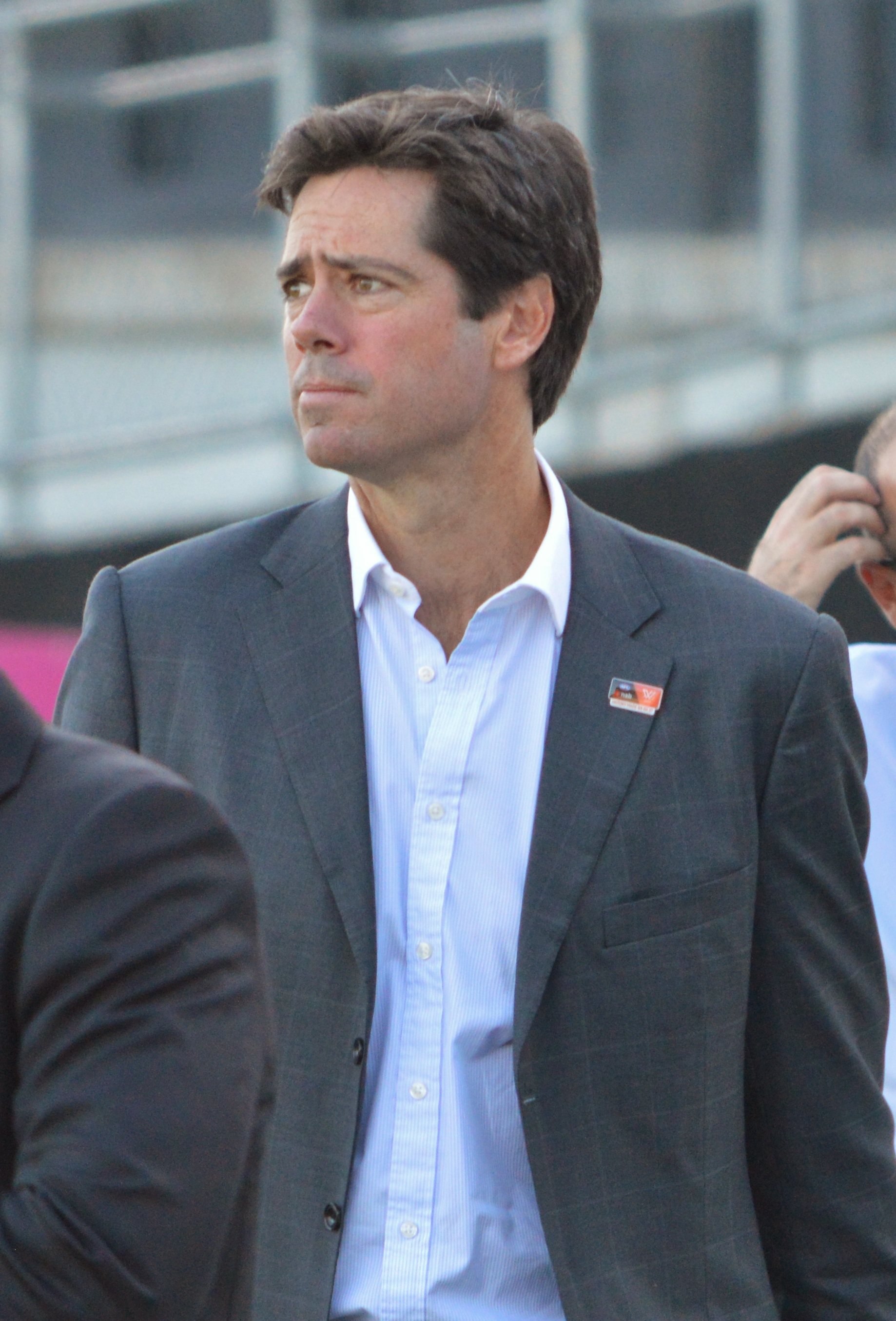 Gillon McLachlan pictured during the inaugural AFL Women's match in February 2017.